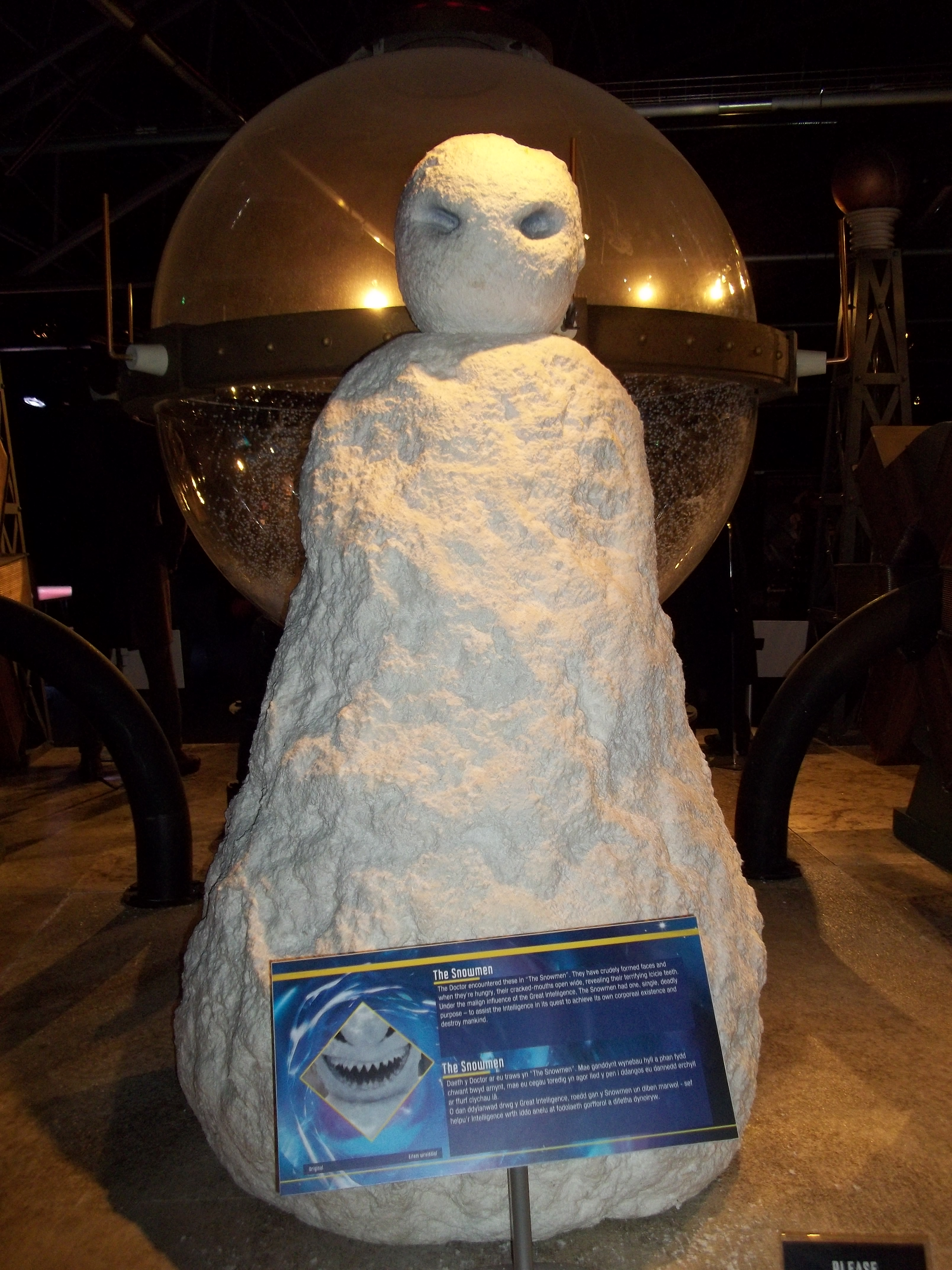 Snowman from The Snowmen Doctor Who Experience